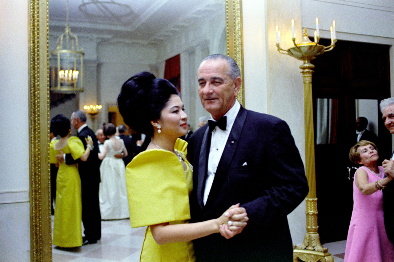 US President Lyndon B. Johnson and Philippine First Lady Imelda Marcos dancing.